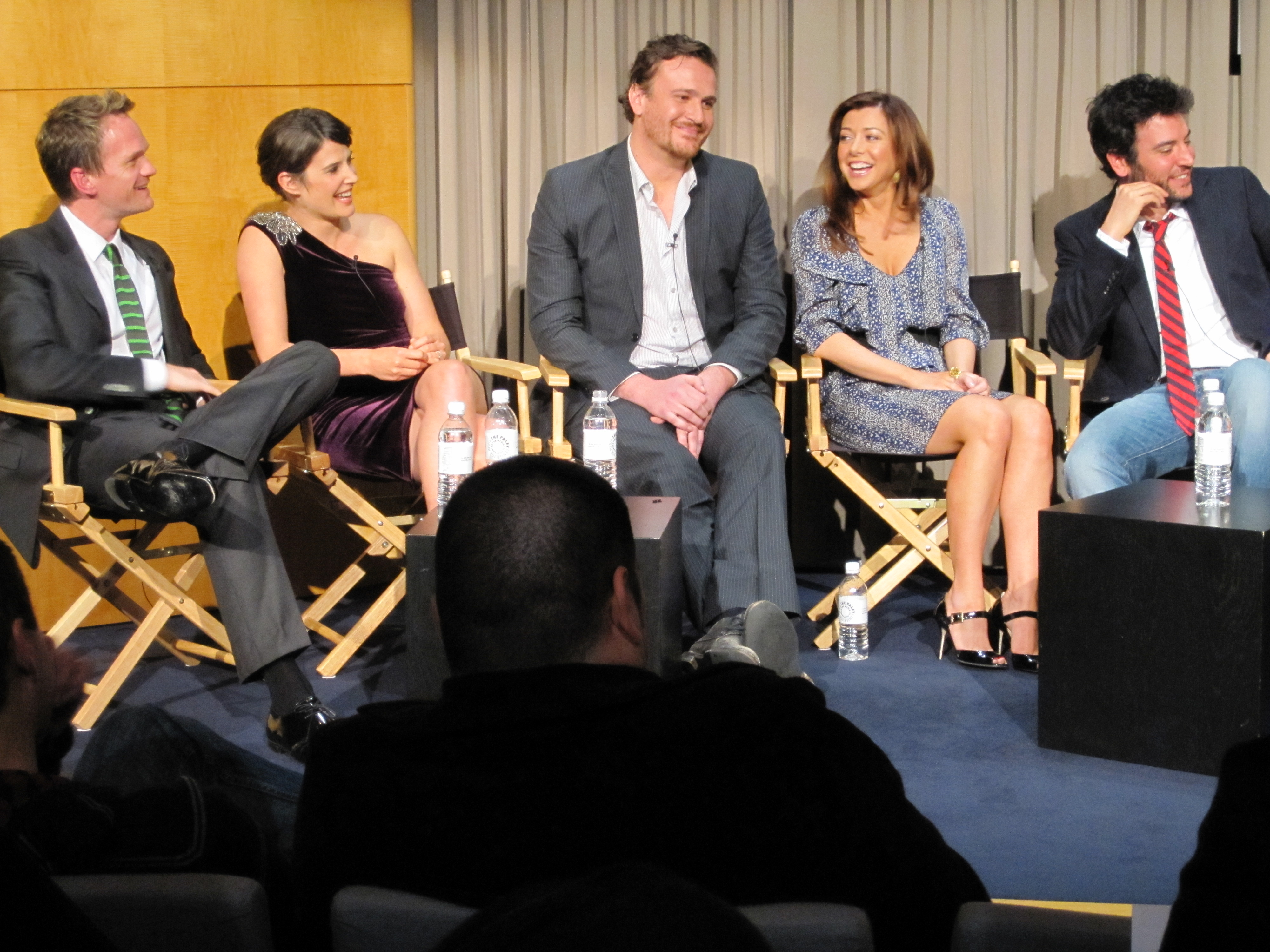 The cast of the US television show How I Met Your Mother at the 100th episode celebration at the Paley Centre. From left: Neil Patrick Harris, Cobie Smulders, Jason Segel, Alyson Hannigan and Josh Radnor.